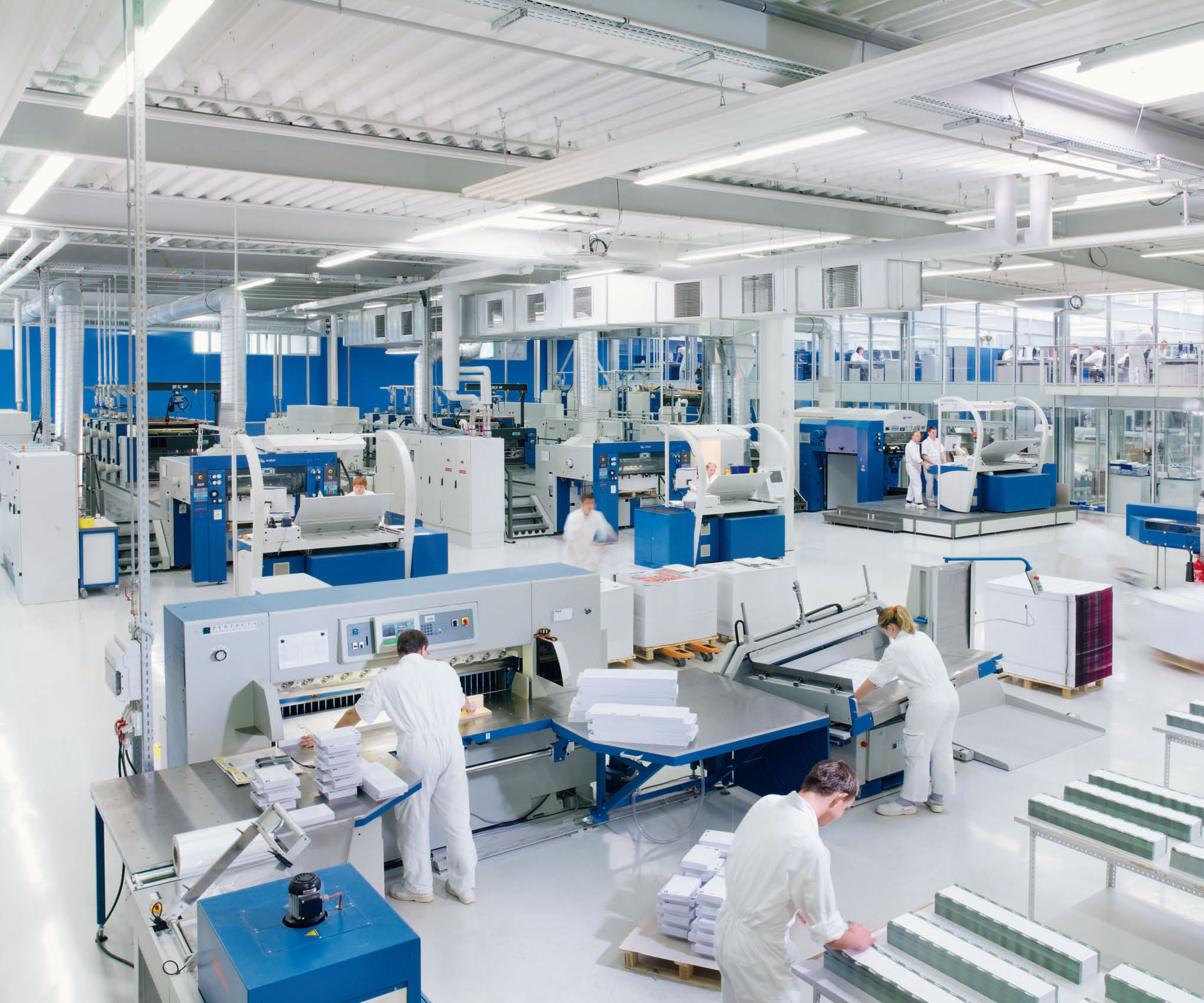 printing plant SE